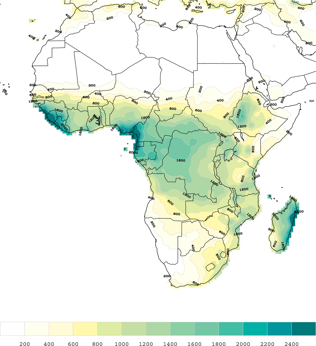 Africa mean annual 1971-2000 precipitation (millimeters). Data source:GPCC 1901-2007 dataset available at